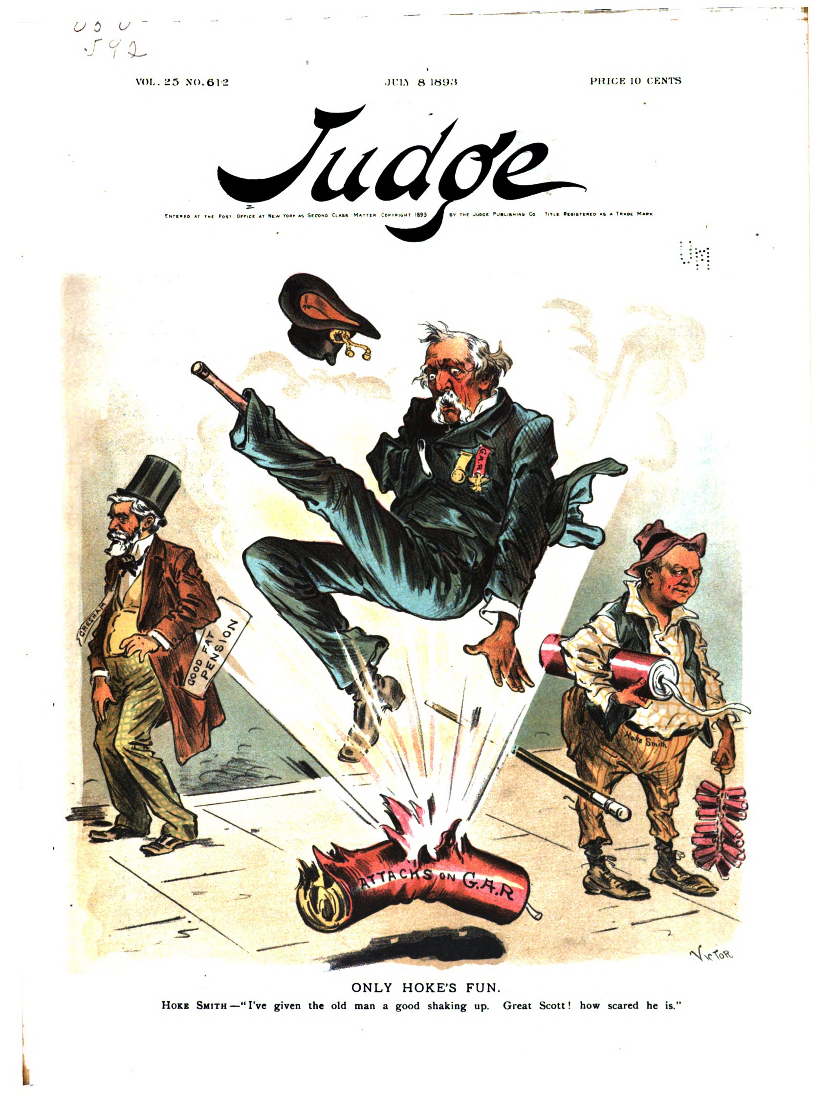 Judge Magazine Cover (8 Jul 1893)